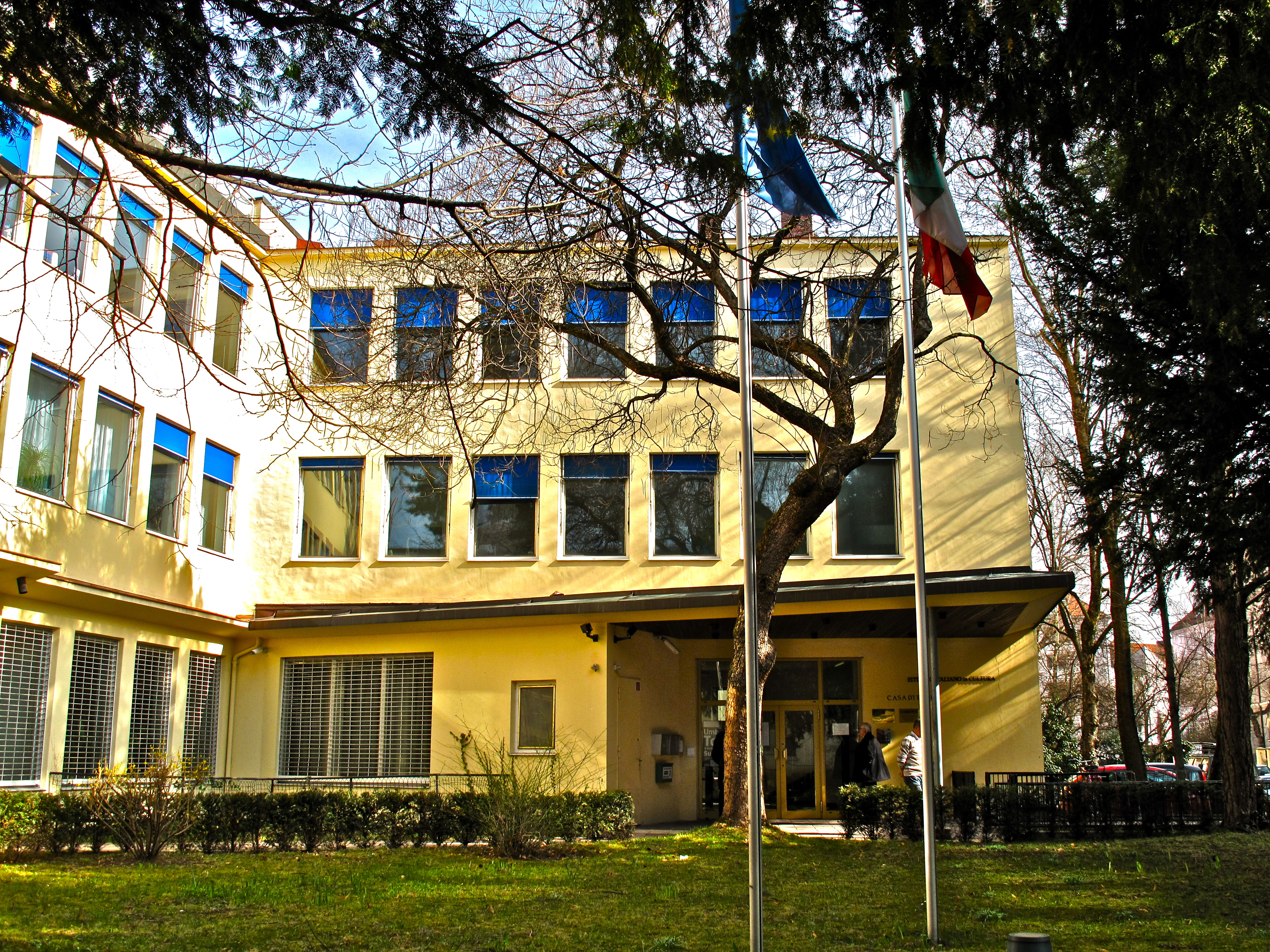 The Istituto Italiano di Cultura in Munich is located in the Hermann-Schmid-Strasse 8 close to the Theresienwiese.